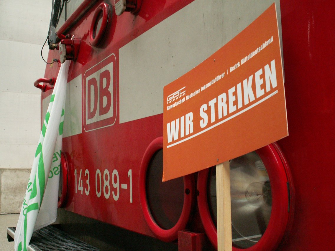 Token strike sign of the Gewerkschaft Deutscher Lokomotivführer (German railway engineers union) on a DB class 143 locomotive in Leipzig